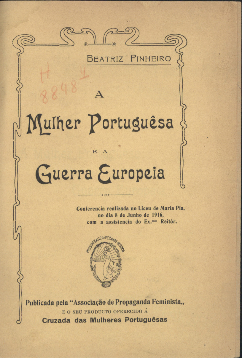 Beatriz Pinheiro During the First World War on 8 June 1916 she held a conference at Liceu Maria Pia where she was teaching.[1] As a result she published A Mulher Portuguêsa e a Guerra Europeia (Portuguese Women and the European War)